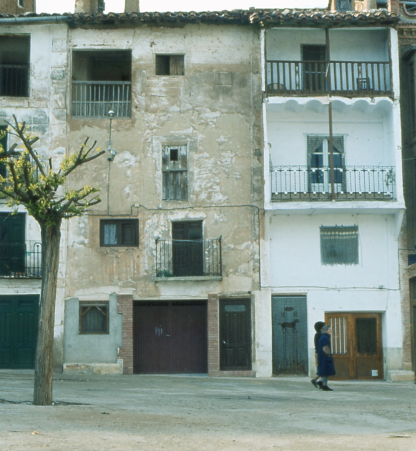 4-flour farmhouse in the village of Torre Baja south of Teruel, Spain